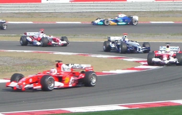 Rubens Barrichello leads Ralf Schumacher, Mark Webber, Jarno Trulli and Felipe Massa at the 2005 Chinese GP